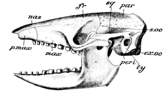 Fig. 99.—Skull of Armadillo. Dasypus sexcinctus. × ⅔. ex.oc, Exoccipital; fr, frontal; max, maxilla; nas, nasal; par, parietal; peri, periotic; p.max, premaxilla; s.oc, supraoccipital; sq, squamosal; ty, tympanic. (From Parker and Haswell's Zoology.) Now referred to genus Euphractus.